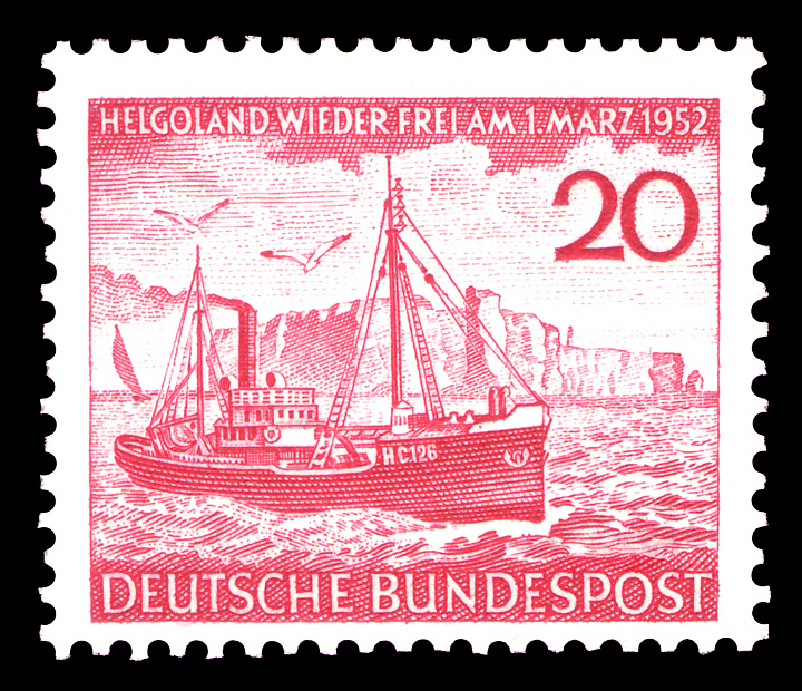 Stamp 1952 for the isle of Heligoland, given back to Germany Graphics by Goldammer Ausgabepreis: 20 Pfennig First Day of Issue / Erstausgabetag: 6. September 1952 Michel-Katalog-Nr: 152